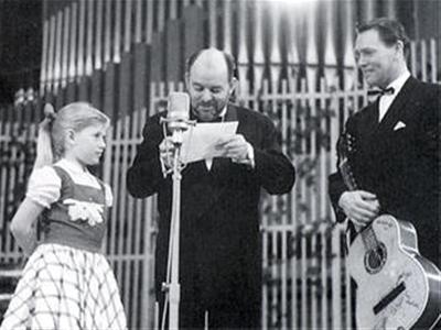 Gitte and Otto Hænning with presenter Sejr Volmer-Sørensen during Ungarnshjælp (Help for Hungary) in 1957